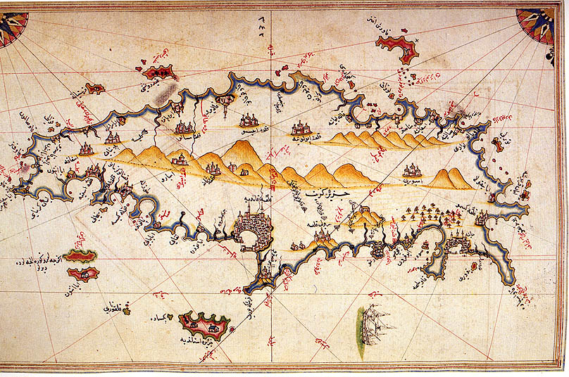 Island of Crete in Greece on the Kitab-Ä± Bahriye (Book of Navigation) of Piri Reis